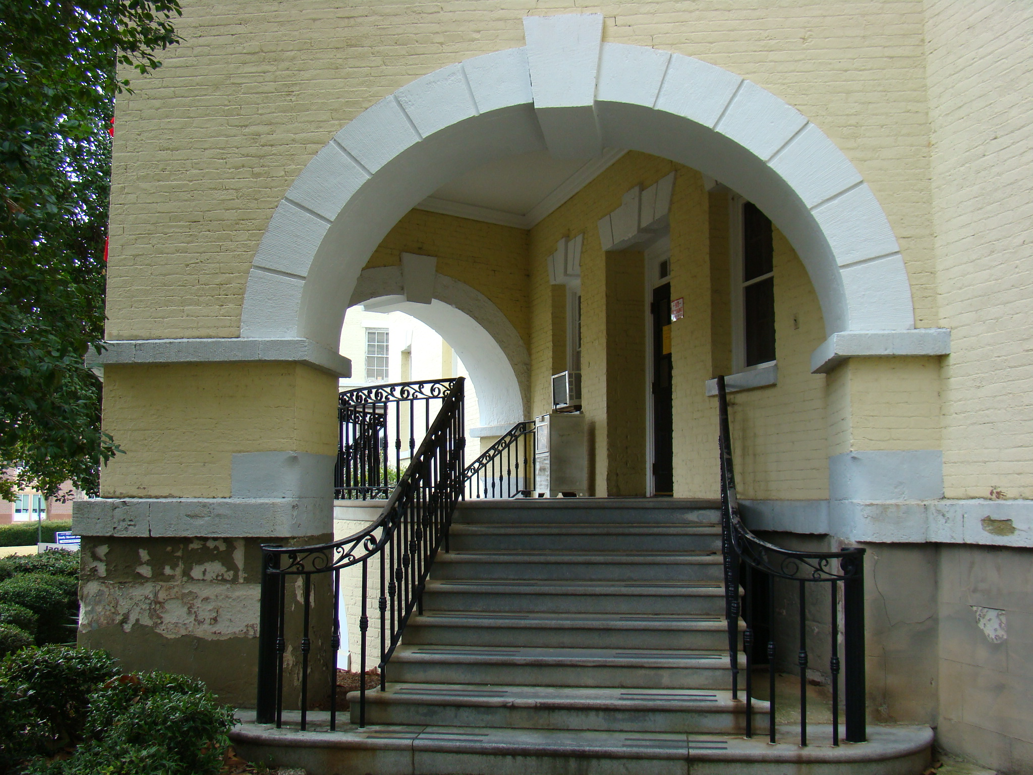 Payne Hall, Augusta State University (Augusta, Georgia, USA). Part of the former Augusta Arsenal.